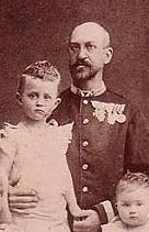 Princess Thyra of Denmark and Ernest Augustus, Crown Prince of Hanover with their six children, 1887/88. *On Thyra's lap: Baby Ernest Augustus, Duke of Brunswick